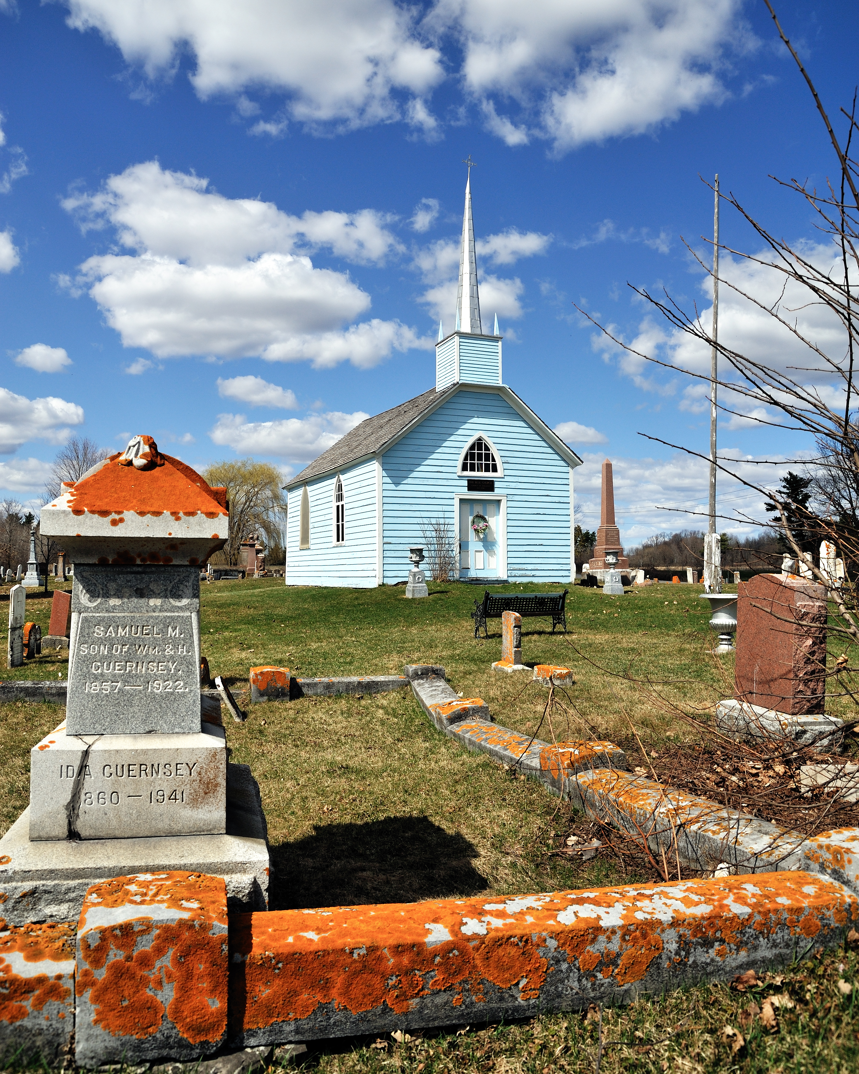 The so called "Blue Church", is small wooden chapel built in 1845. Today it is used mainly as a funeral chapel and the cemetary which surround the church still contains memorials to many of the early settlers to the area. The church is located on the north side of County Road 2, about 3 km west of Prescott in Eastern Ontario.